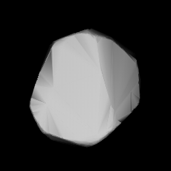 3D convex shape model of 1546 Izsák, computed using light curve inversion techniques. J. Hanuš, J. Ďurech, M. Brož, B. D. Warner (June 2011). "A study of asteroid pole-latitude distribution based on an extended set of shape models derived by the lightcurve inversion method". Astronomy and Astrophysics 530: A134. ISSN 0004-6361. arXiv